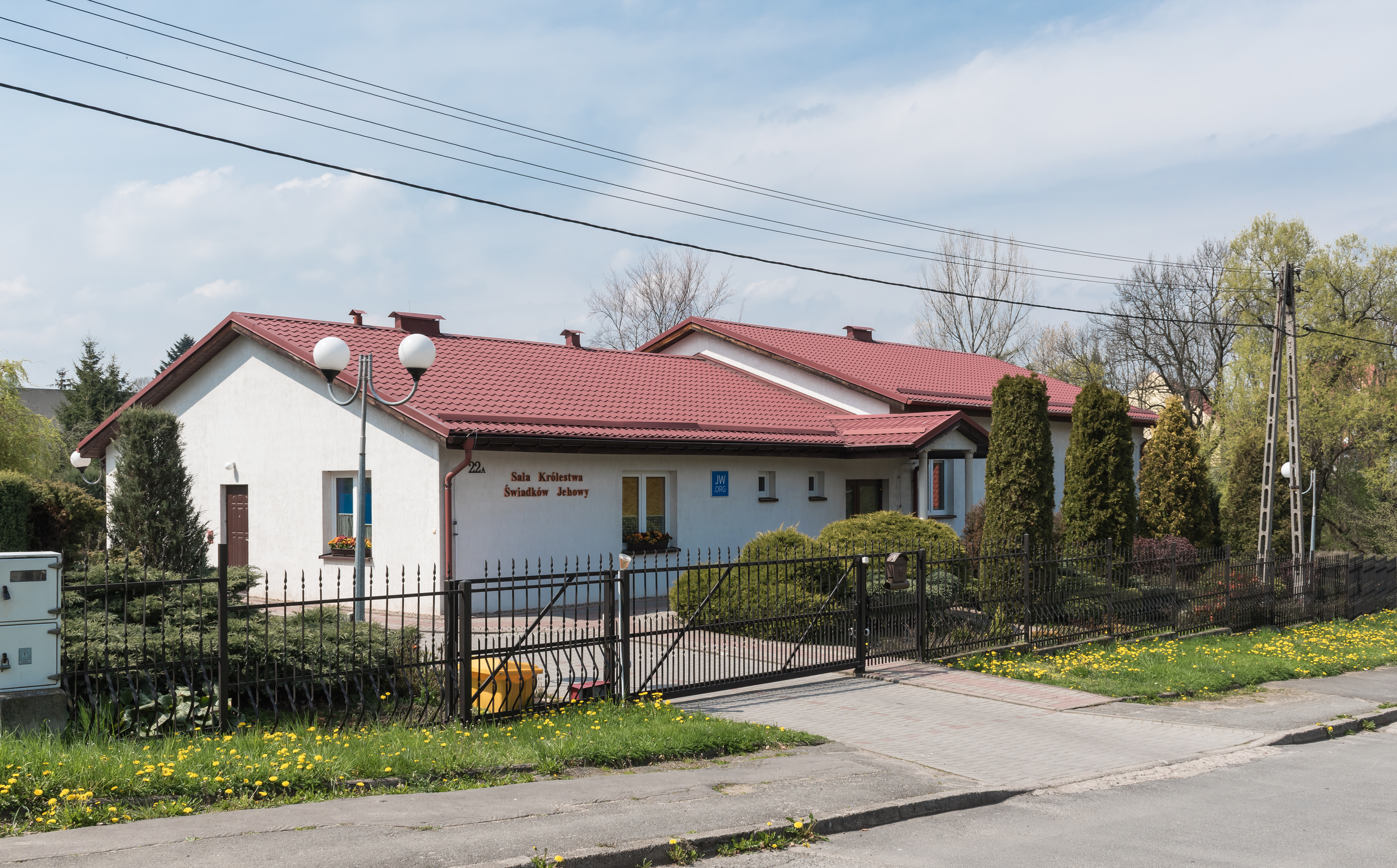 Jehovah's Witnesses Kingdom Hall in Kłodzko